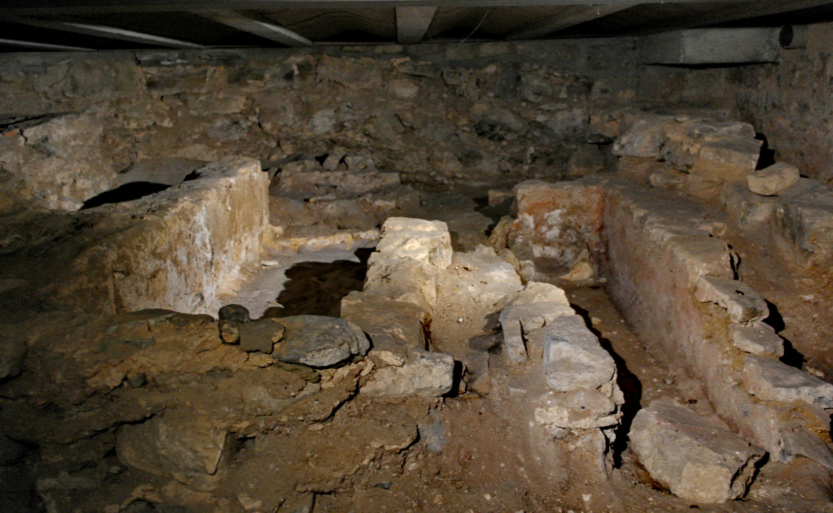 Archaeological excavations (10th/11th c.) in the basement of the so-called double chapel of the Basilica of Saint Servatius in Maastricht, Netherlands.